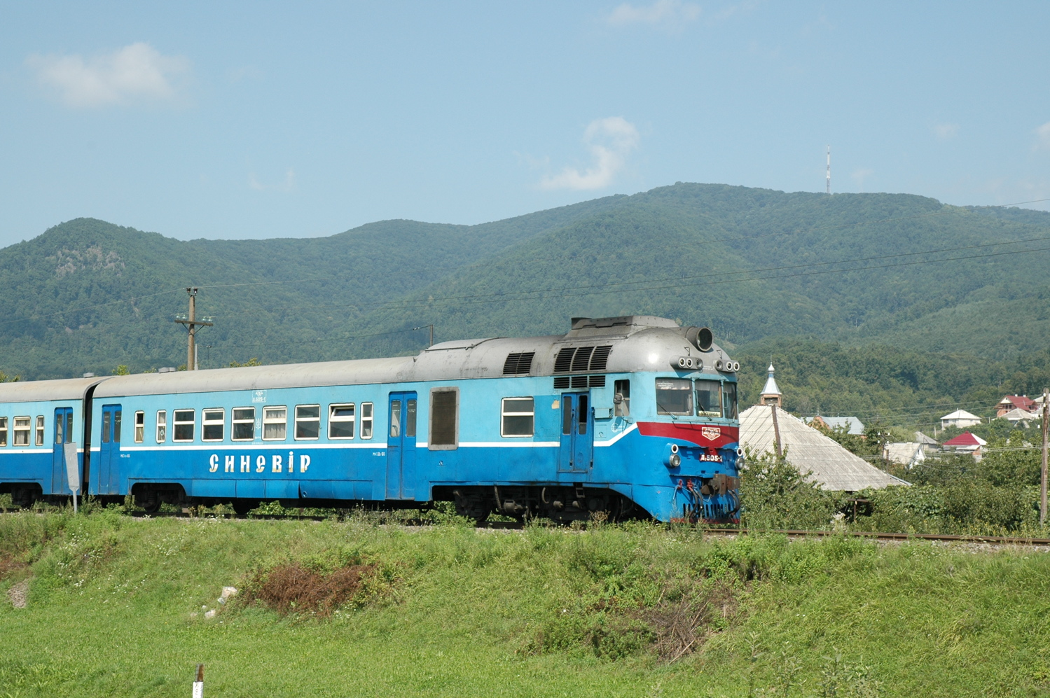 D1 Ukrainian diesel multiple unit near Khust (Zakarpatska oblast, Ukraine). This particular unit is "branded" Synevir (Синевір) honoring the unique lake nearby.